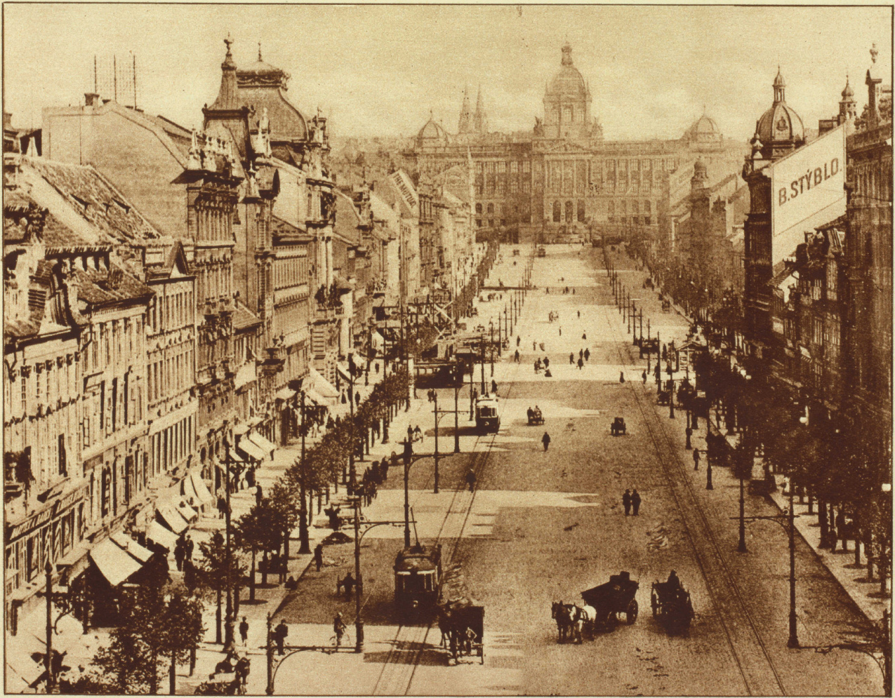 Venceslas Square in Prague